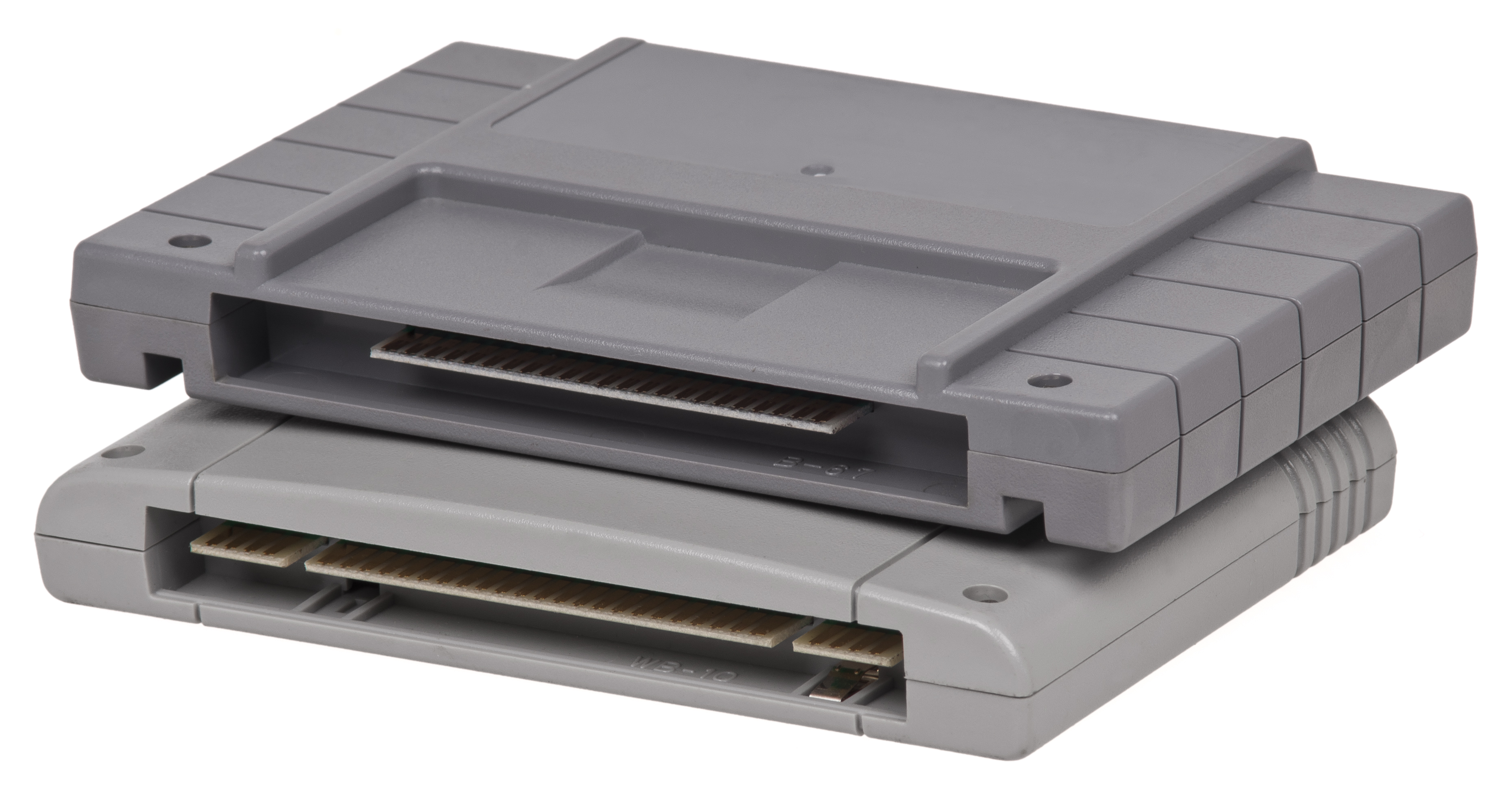 A Super NES game cartidge on top of a Super Famicom game cartridge. Note that the bottom cartidge contains Super FX chips.